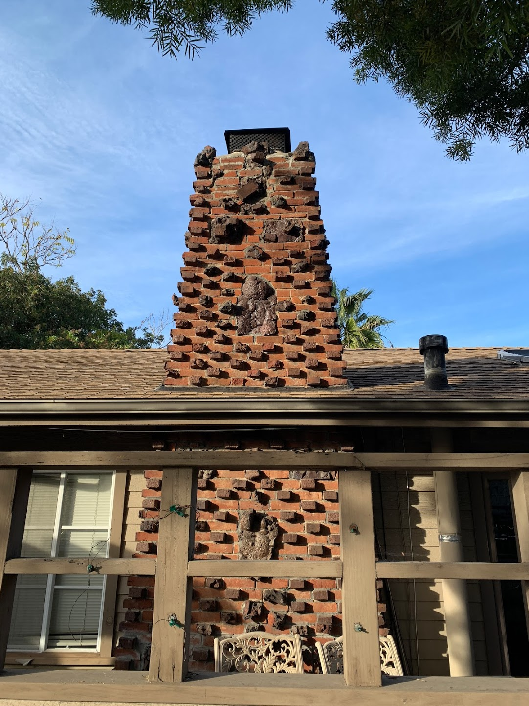 Mission Hills Architecture, chimney